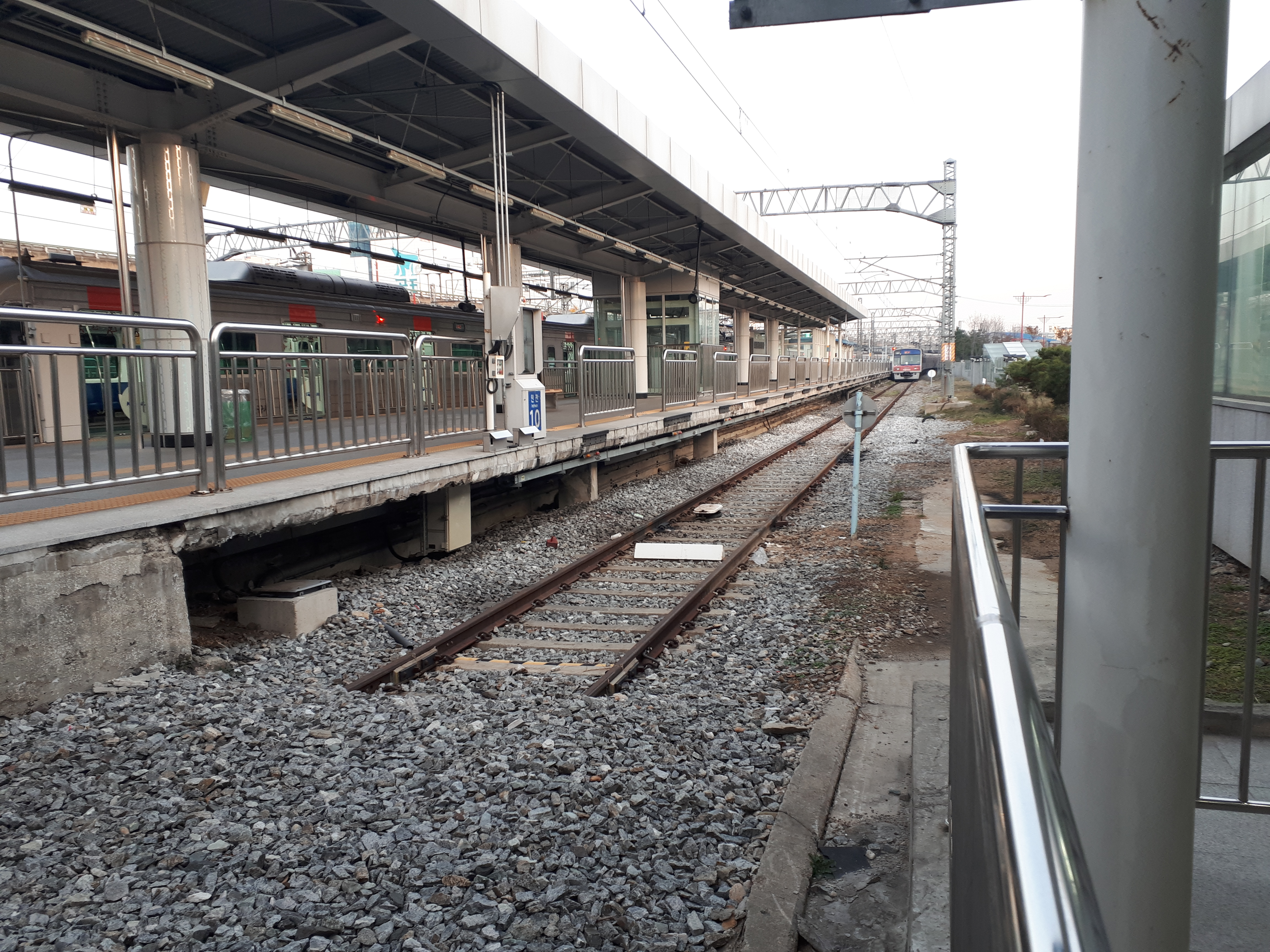 Incheon Station bay platform